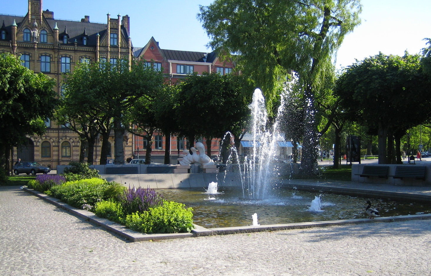 The water fountain at Saint Clemens square in Lund, Sweden